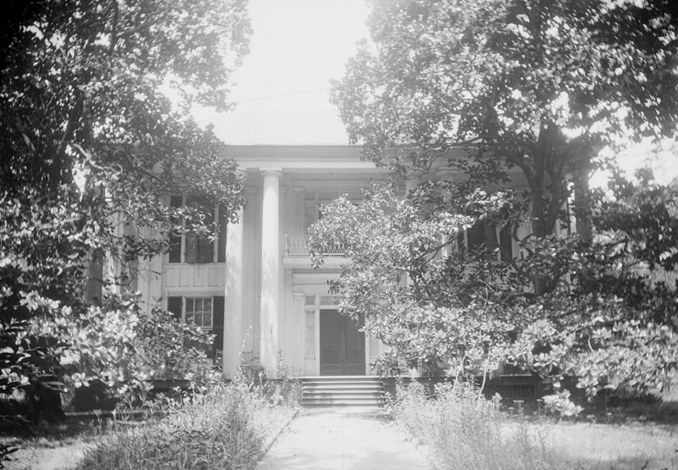 Holiday Haven, Meridian Street, Aberdeen (Monroe County, Mississippi) cropped, HABS MISS,48-ABDE,2-1 This file comes from the Historic American Buildings Survey (HABS), Historic American Engineering Record (HAER) or Historic American Landscapes Survey (HALS). These are programs of the National Park Service established for the purpose of documenting historic places. Records consist of measured drawings, archival photographs, and written reports. When reusing please credit: Library of Congress, Prints & Photographs Division, MS-70 This tag does not indicate the copyright status of the attached work. A normal copyright tag is still required. See Commons:Licensing. This work is in the public domain in the United States because it is a work prepared by an officer or employee of the United States Government as part of that person’s official duties under the terms of Title 17, Chapter 1, Section 105 of the US Code. Note: This only applies to original works of the Federal Government and not to the work of any individual U.S. state, territory, commonwealth, county, municipality, or any other subdivision. This template also does not apply to postage stamp designs published by the United States Postal Service since 1978. (See § 313.6(C)(1) of Compendium of U.S. Copyright Office Practices). It also does not apply to certain US coins; see The US Mint Terms of Use. This file has been identified as being free of known restrictions under copyright law, including all related and neighboring rights.